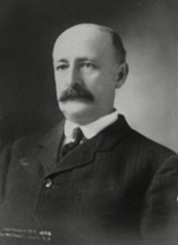 Former Senator James Frank Allee.